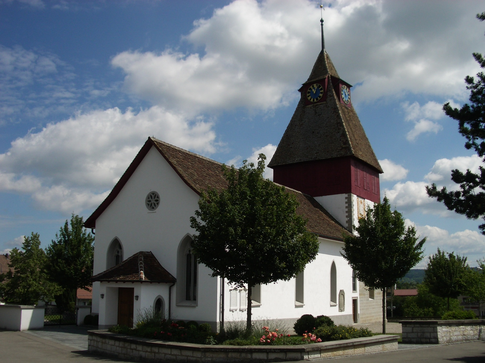 Rümlang ZH, Switzerland